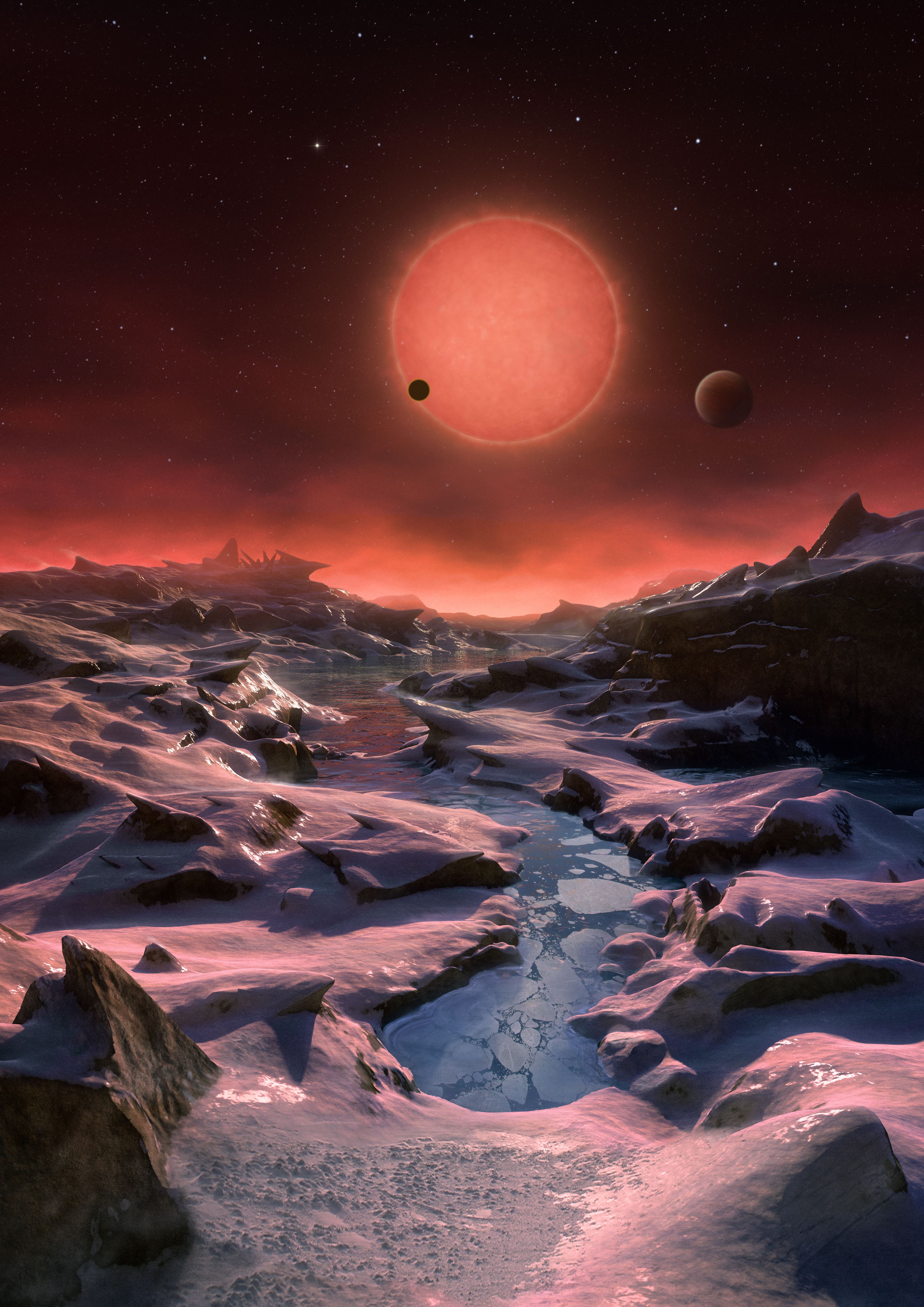 This artist’s impression shows an imagined view from the surface one of the three planets orbiting an ultracool dwarf star just 40 light-years from Earth that were discovered using the TRAPPIST telescope at ESO’s La Silla Observatory. These worlds have sizes and temperatures similar to those of Venus and Earth and are the best targets found so far for the search for life outside the Solar System. They are the first planets ever discovered around such a tiny and dim star. In this view one of the inner planets is seen in transit across the disc of its tiny and dim parent star.